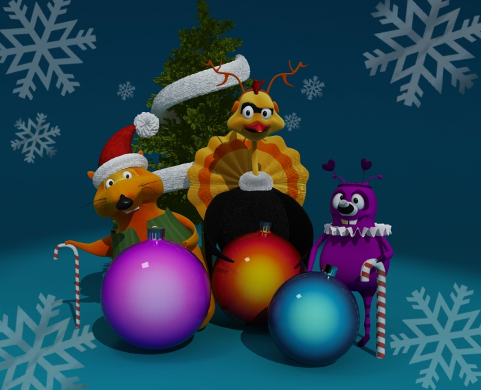 Christmas cartoon card